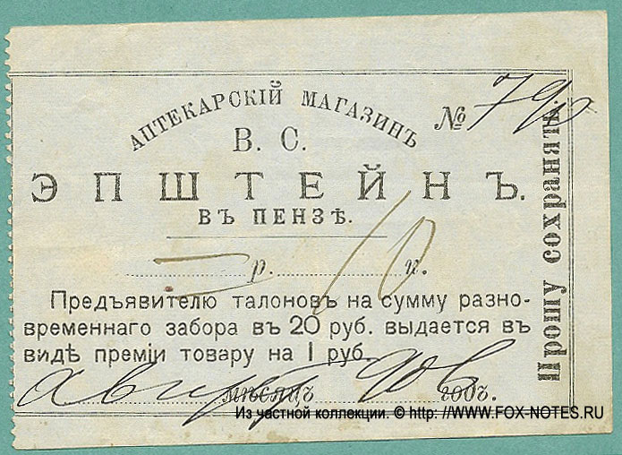 10 kopeck bon from Pharmacy store V.S. Epstein in Penza, circa 1906